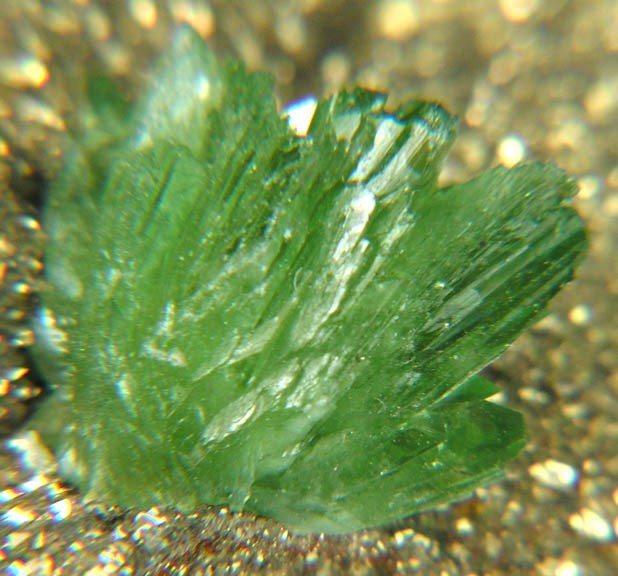 Ludlamite Locality: Huanuni mine, Huanuni, Dalence Province, Oruro Department, Bolivia (Locality at ) Size: 4.2 x 2.8 x 1.9 cm. This is a very good specimen of this remarkably rare iron phosphate consisting of wonderful, sharp, lustrous, gemmy, deep green, layered crystal groups of Ludlamite sitting atop Pyrite matrix. The group of crystals measures 0.9 cm across. There are truly about 5 localities in the world the produce fine crystallized Ludlamite specimens, and ALL of them, except for Huanuni and now defunct. PLEASE NOTE: There have been no more of these specimens found in the last 5 years from this locality, and it is a possibility there will never be any more.